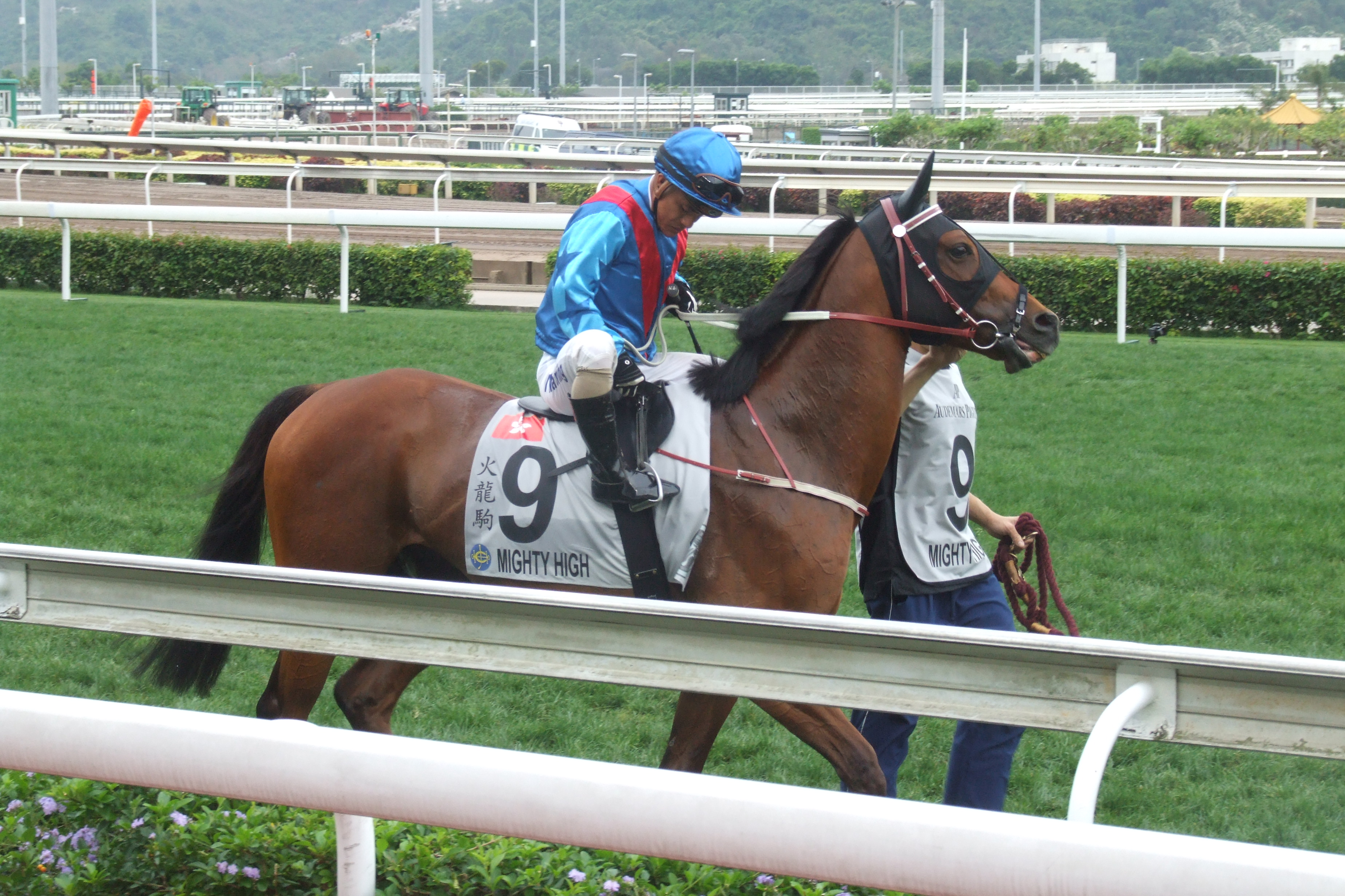 Mighty High 中文（香港）: 火龍駒